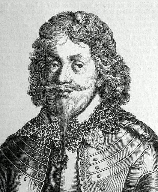 Portrait of John Ernest, Duke of Saxe-Eisenach (1566-1638)